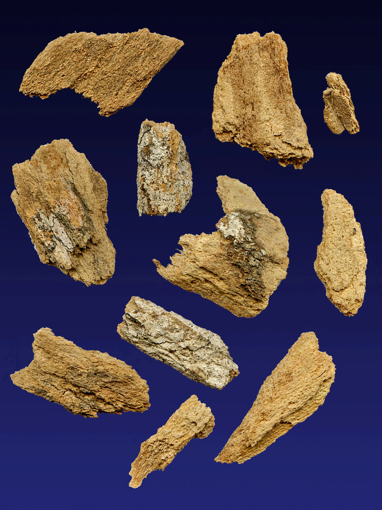 Okoubaka aubrevillei, Santalaceae, Okoubaka tree, bark. No geocoding: studio shoot.